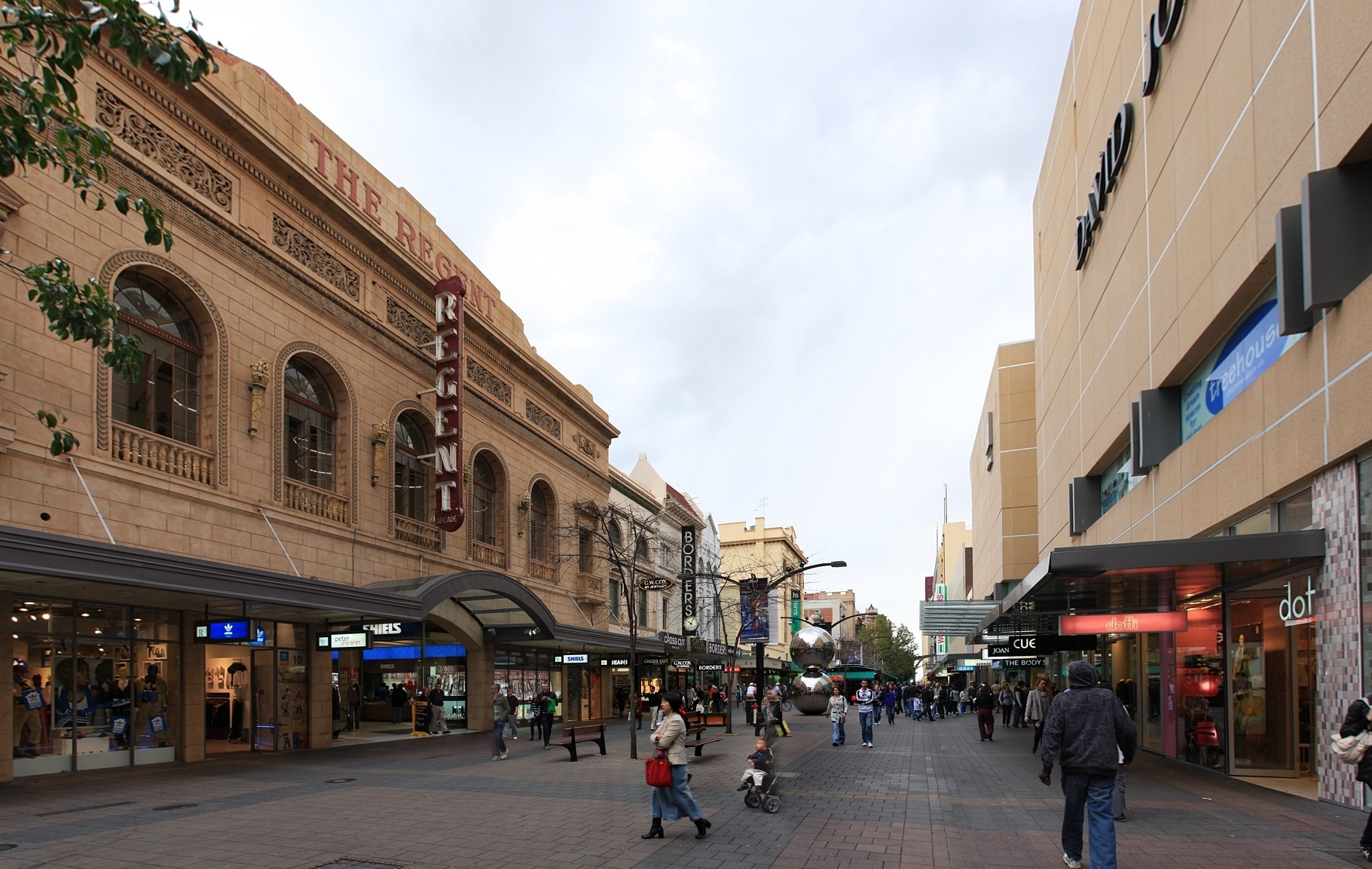 Rundle Mall, Adelaide, looking west from near the Adelaide Arcade